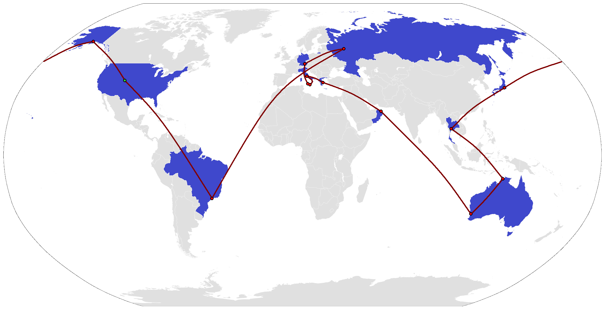 The Route Map of The Amazing Race 9, recreated with black dot leg stops